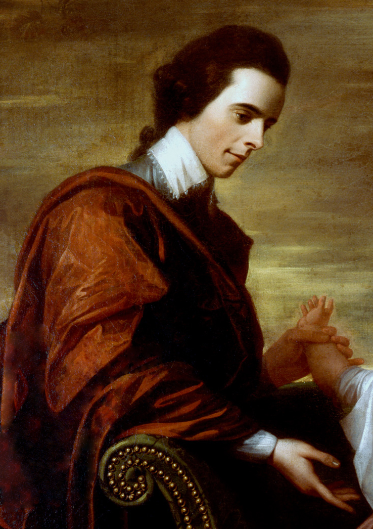 A detail from a 1771 family portrait of the Middleton Family. The full portrait depicts Arthur Middleton (1742-1787); his wife Mary Izard Middleton (1747-1814), and their infant son Henry (1770-1846).